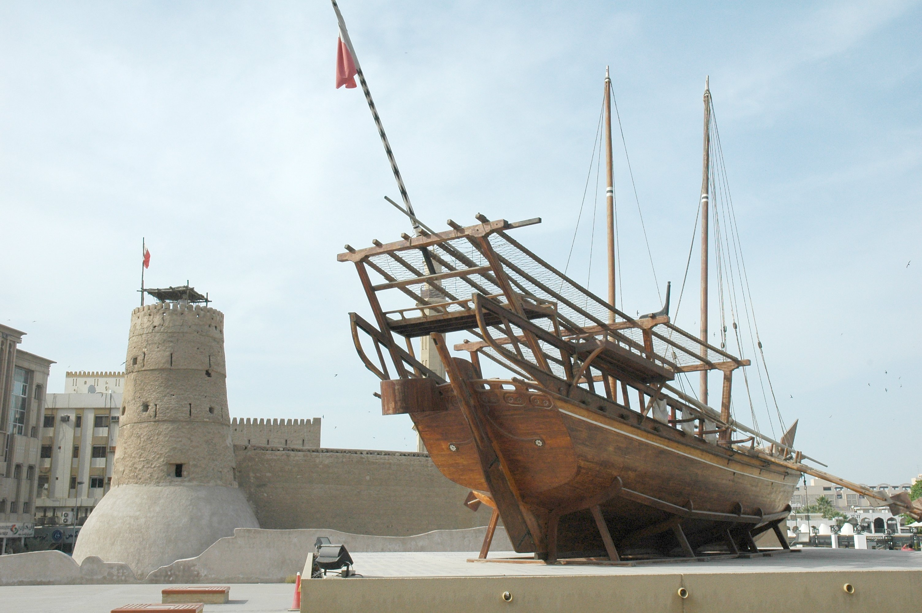 Ship atop the dubai Museum, Dubai.